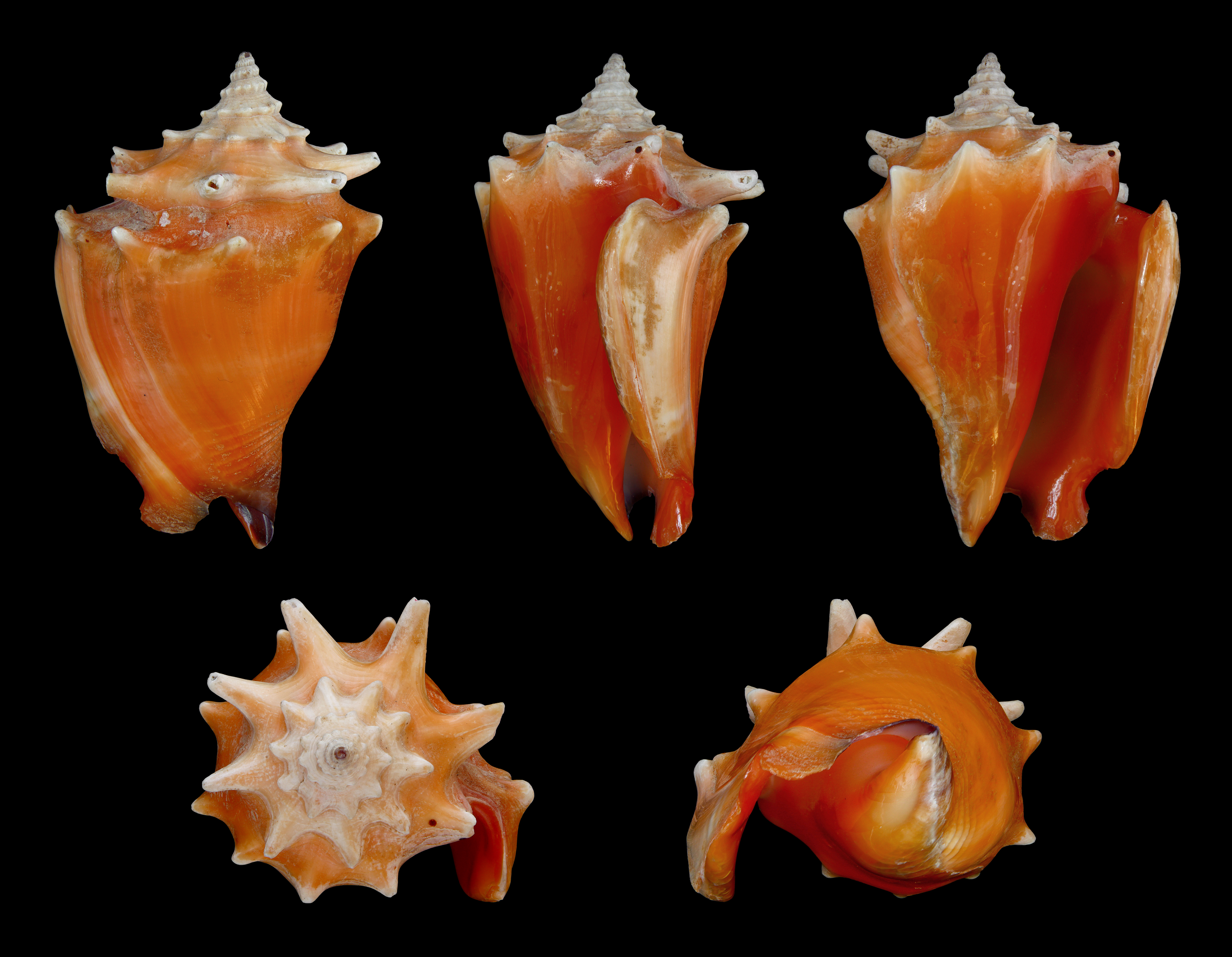 West Indian Fighting Conch, Length 7 cm; Originating from the Caribbean; Shell of own collection, therefore not geocoded. Dorsal, lateral (right side), ventral, back, and front view.